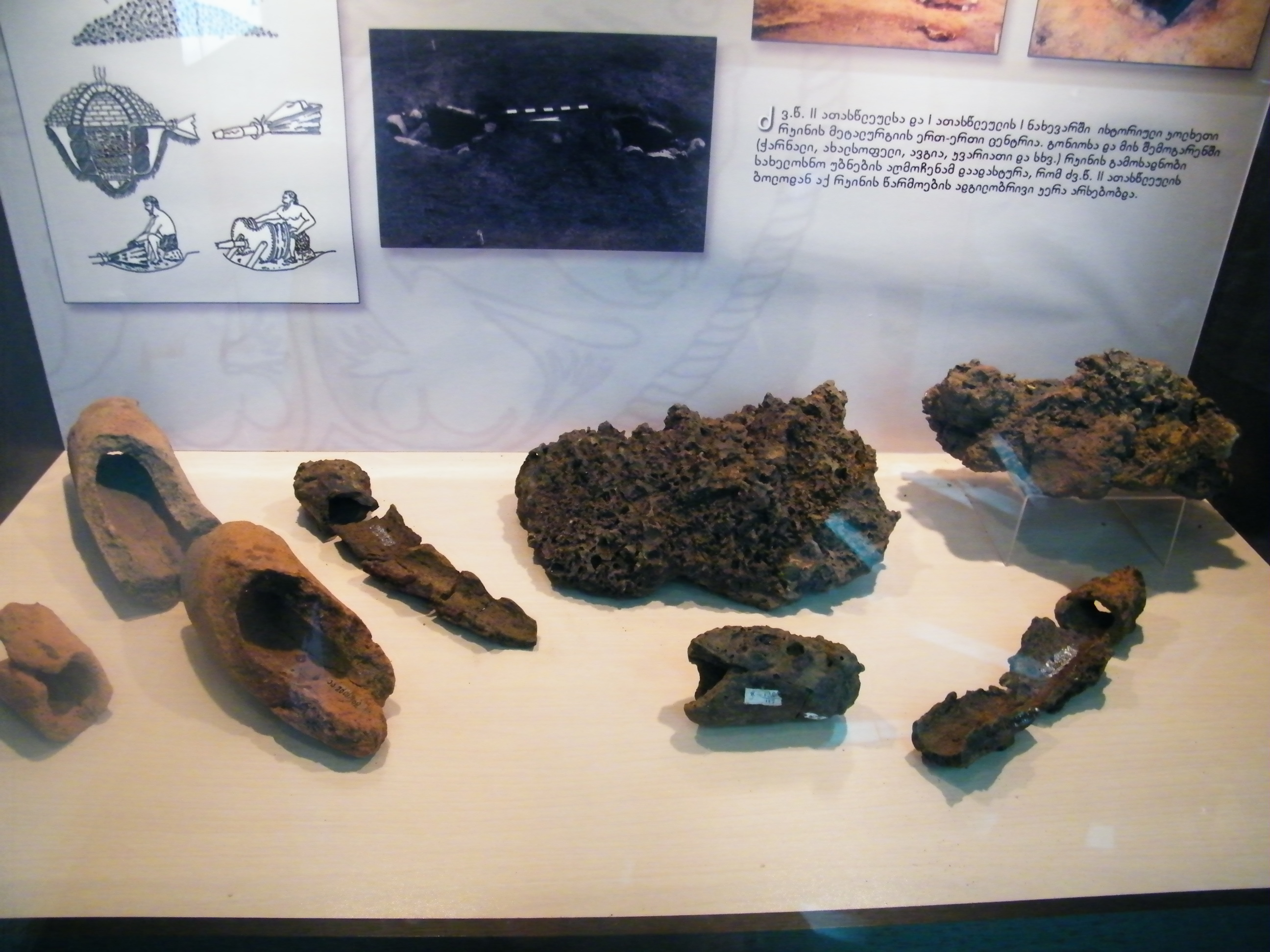 Gonio's archaeological exposition